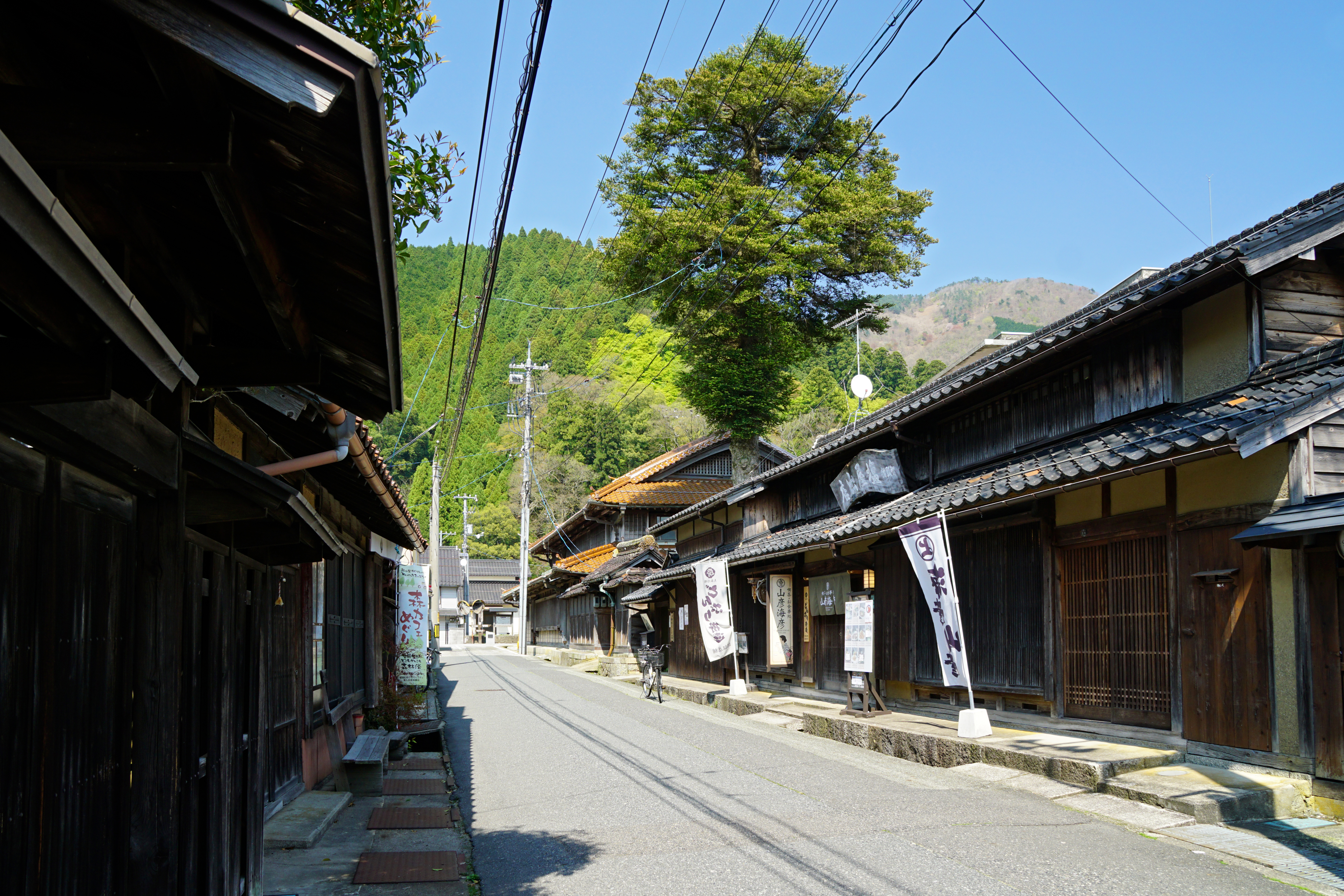 Old Shioya Demise in Chizu, Tottori prefecture, Japan